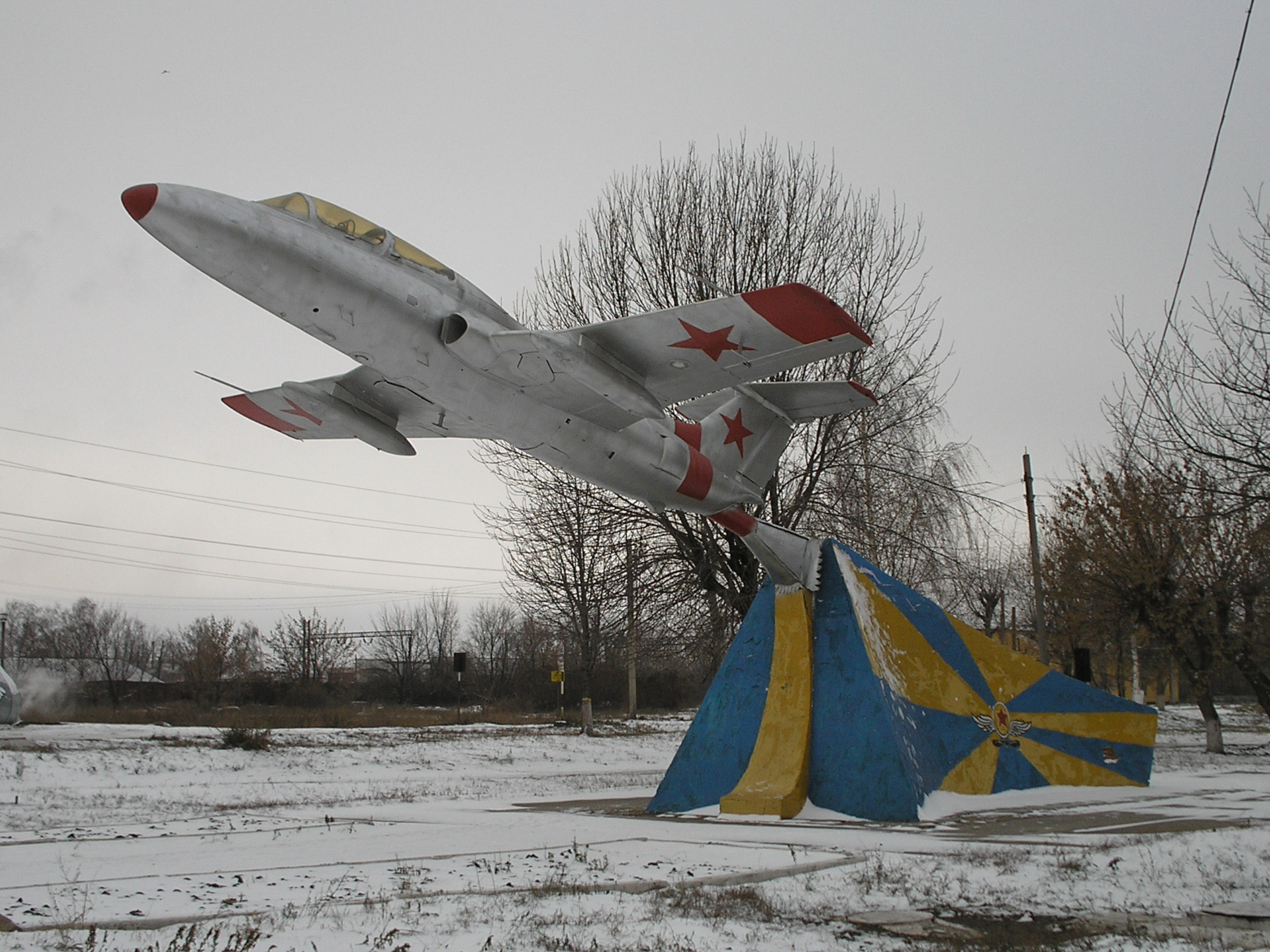 Aviasmall town in Rtishchevo. A monument - a basic trainer arplane of initial training L-29